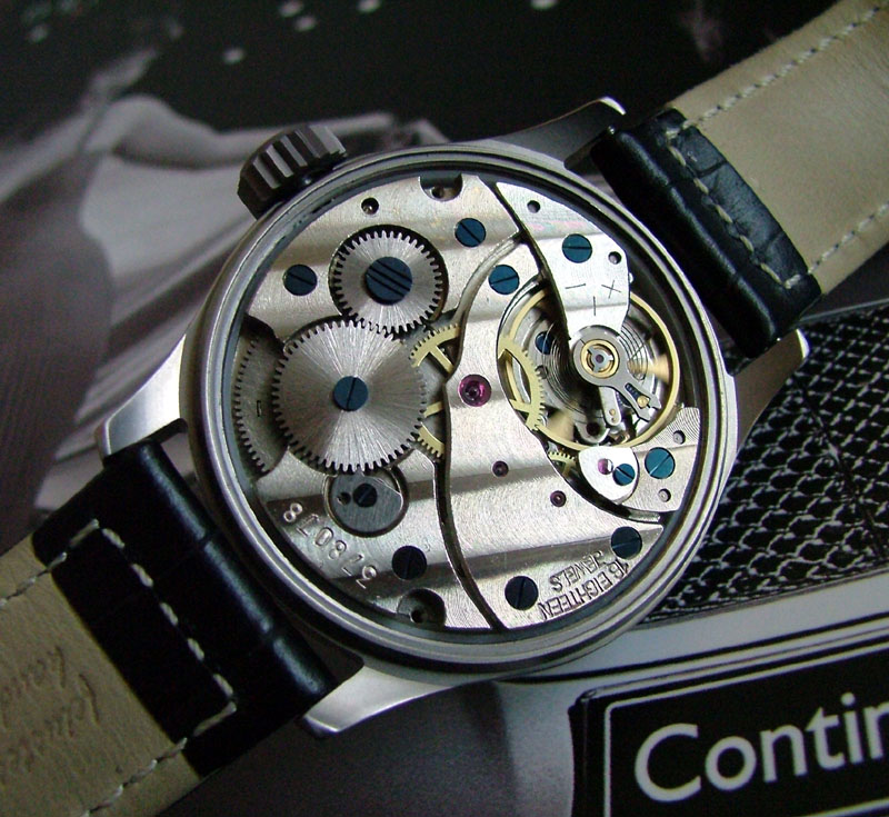 Finished Russian watch movement.